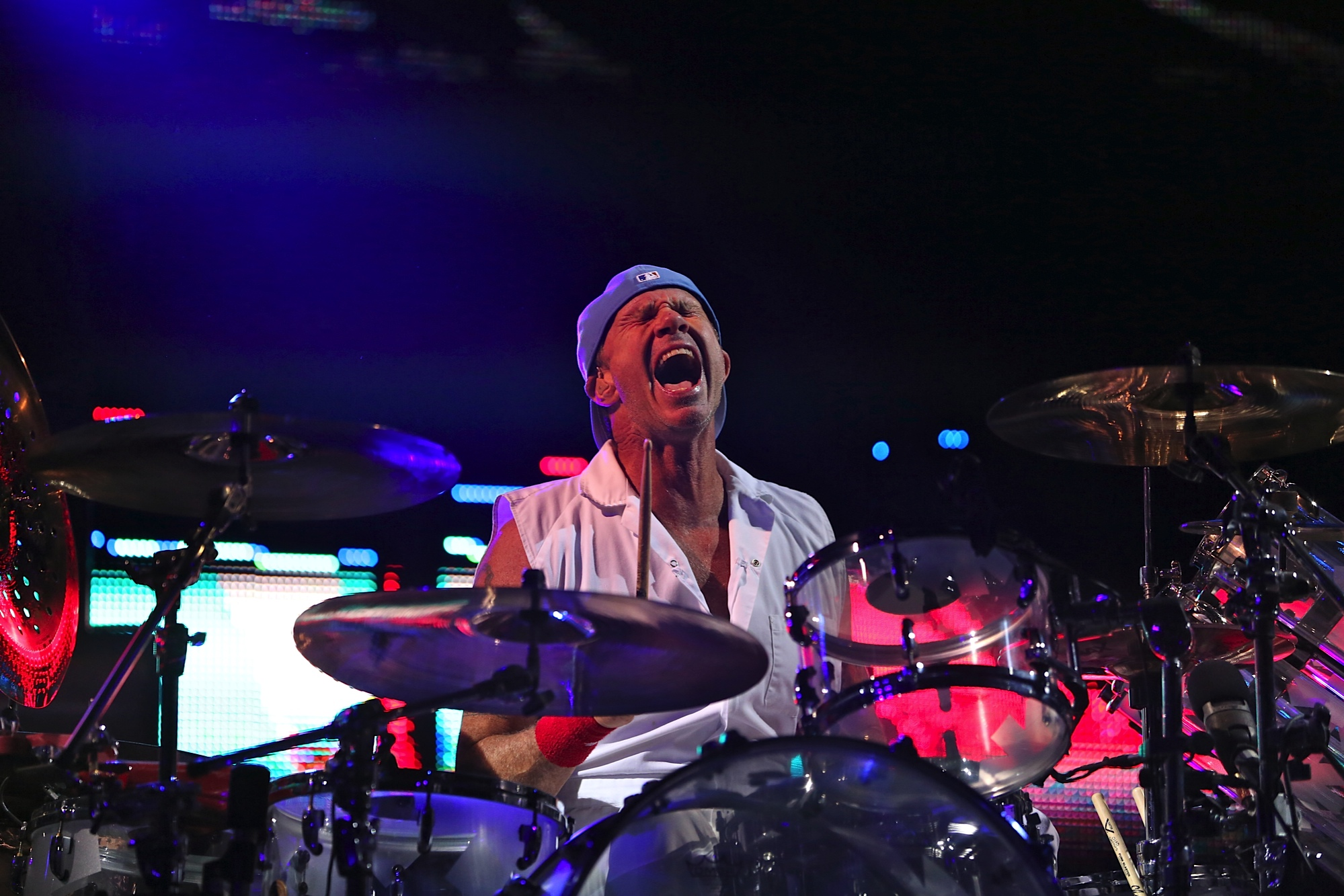 Chad Smith performing with Red Hot Chili Peppers in Mexico City, March 6, 2013 Photo by Laura Glass